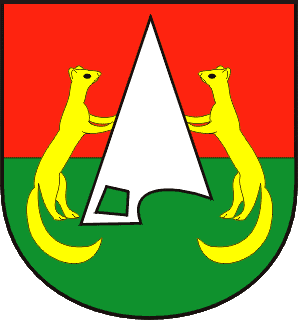 Municipal coat of arms of Kunovice village, Vsetín District, Czech Republic.